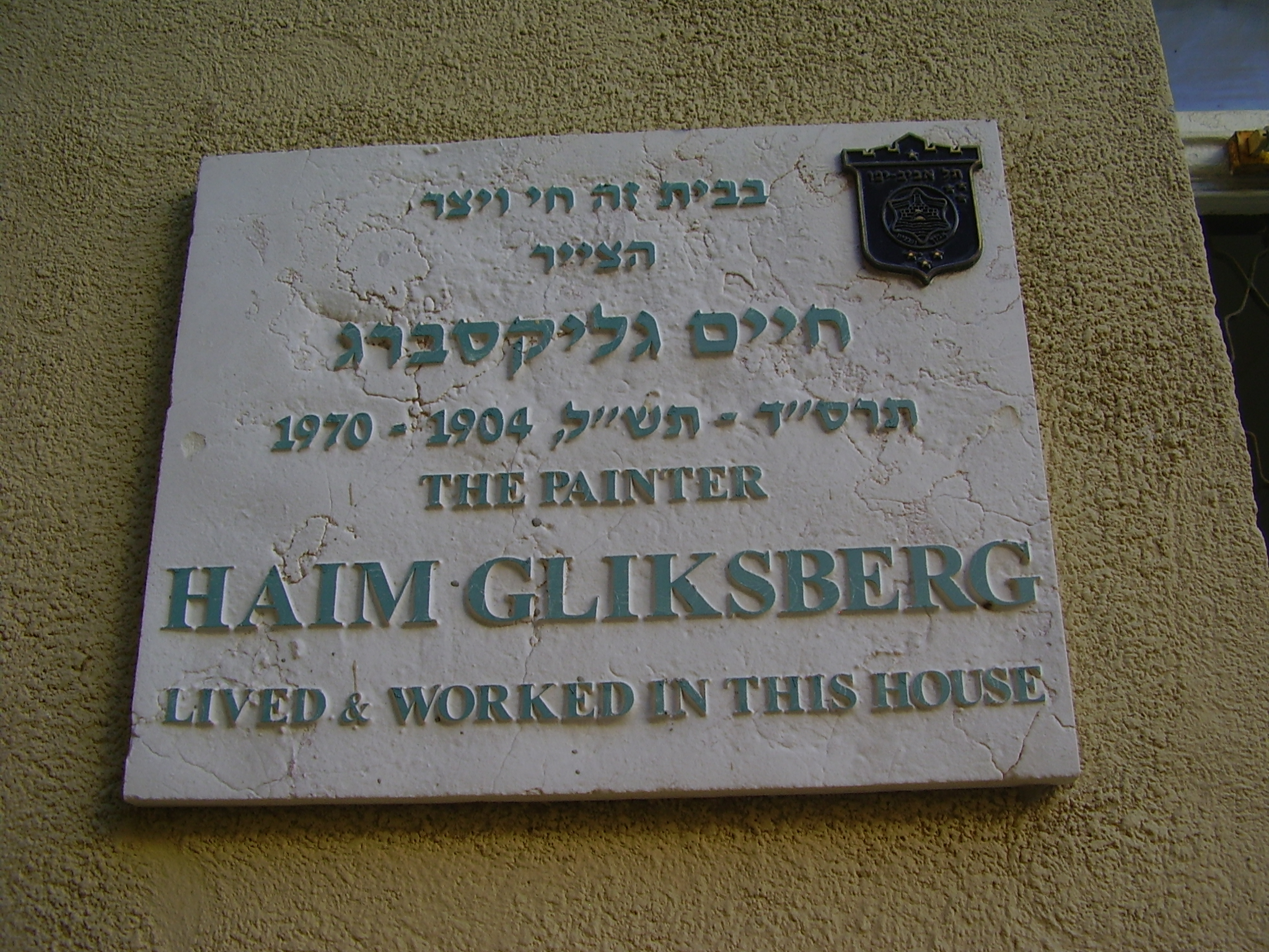 memorial plaque to the painter haim gliksberg in tel aviv לוחית זיכרון לצייר חיים גליקסברג ברח' הס 12 בתל אביב